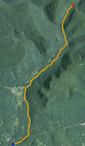 Satellite map of East Branch Fishing Creek . The red dot is the stream's source and blue dot is its mouth. Data available from U.S. Geological Survey, National Geospatial Program.